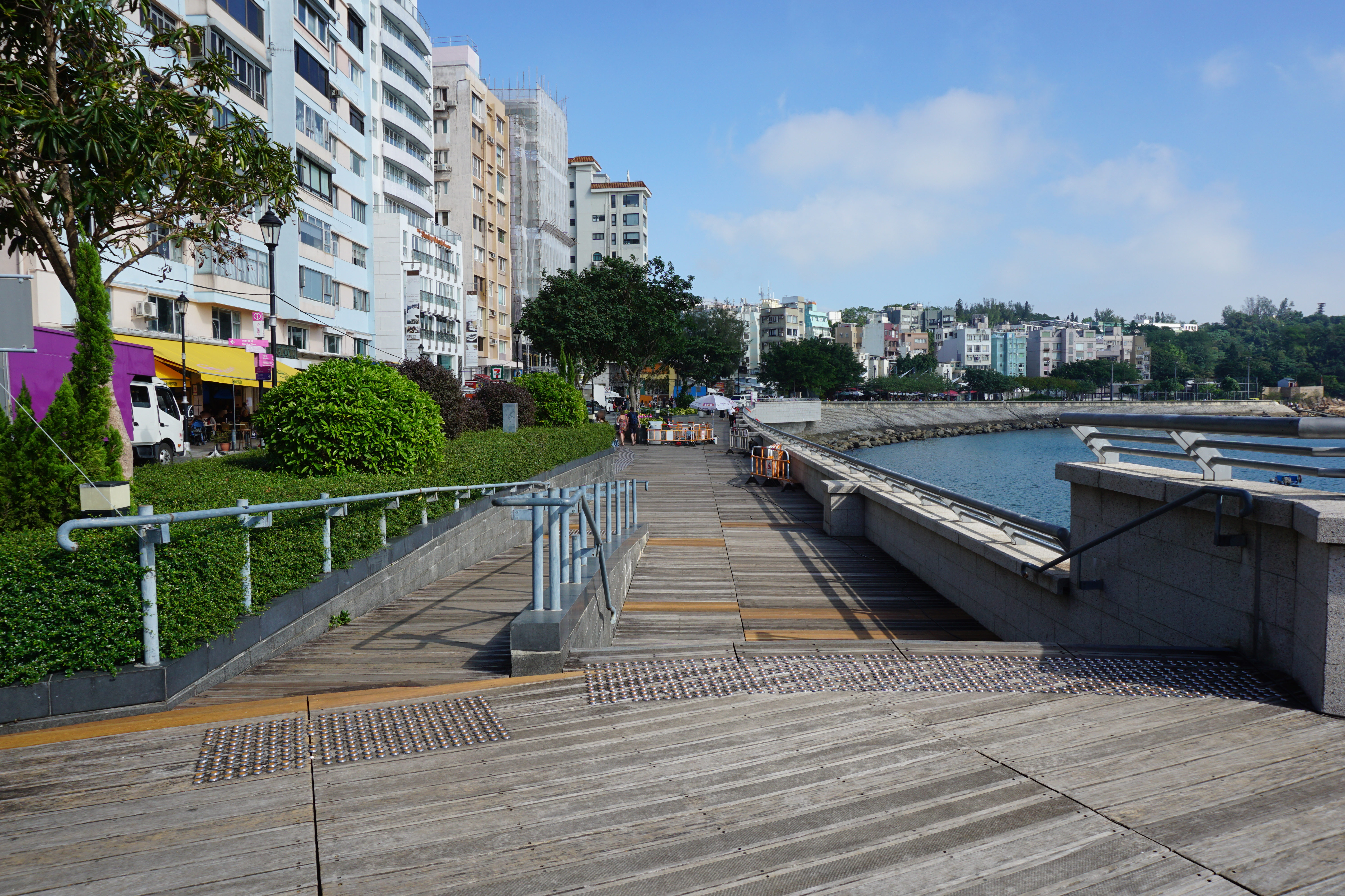 Promenade in Stanley, Hong Kong.